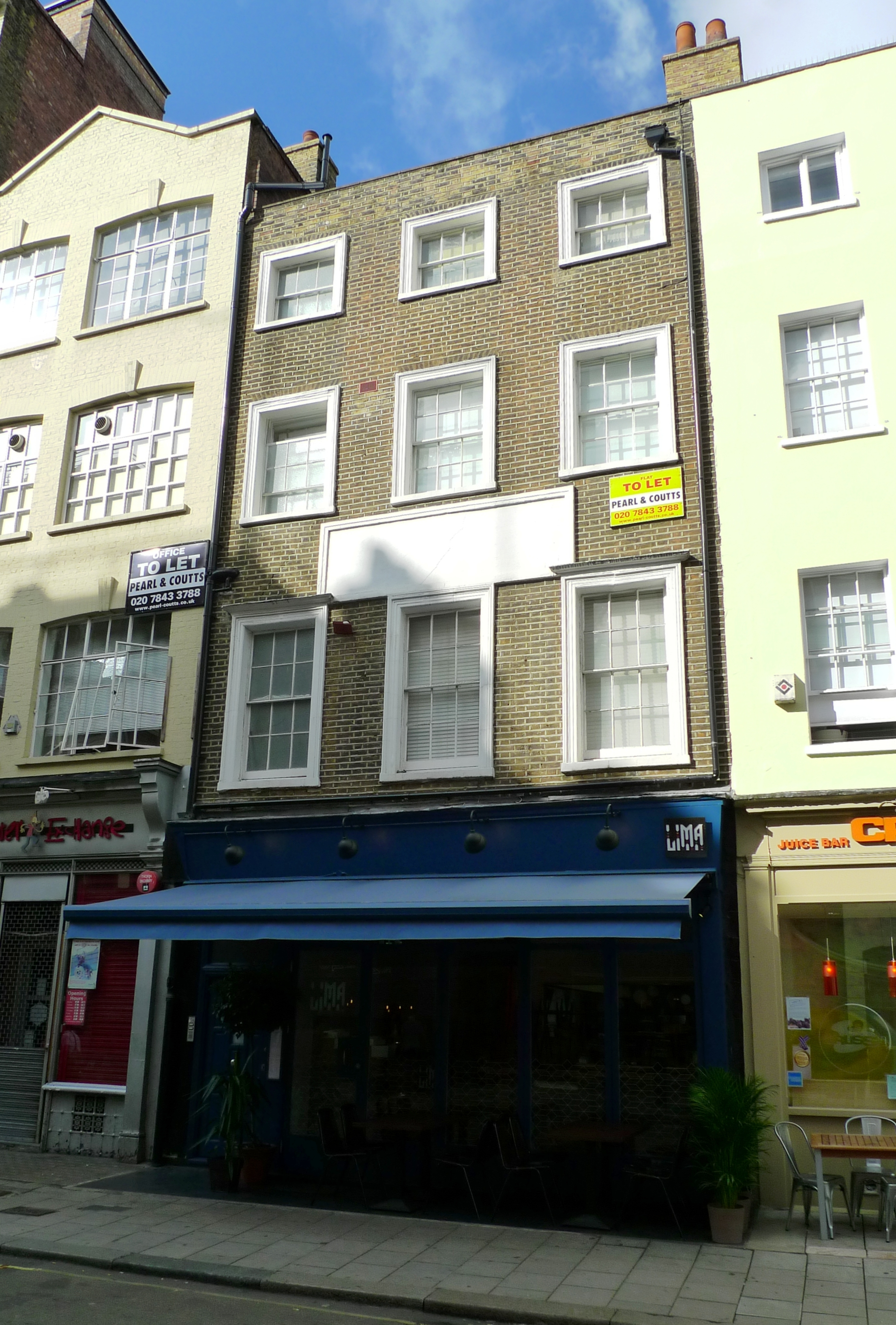 A Peruvian restaurant. There's quite a few of these in London at the time of taking this photo... ( Photo of it as Pierre Loti. ) Address: 31 Rathbone Place. Former Name(s): Pierre Loti. Owner: ( website ). Links: London Eating --- The Evening Standard [Fay Maschler] --- Cheese and Biscuits [Chris Pople] A Rather Unusual Chinaman [Eu-Wen Teh]